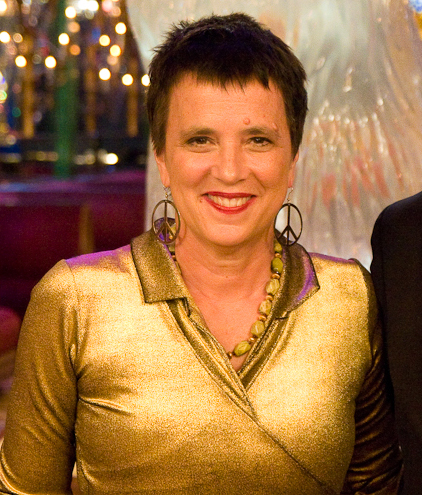 Eve Ensler at a Hudson Union Society event in March 2011.